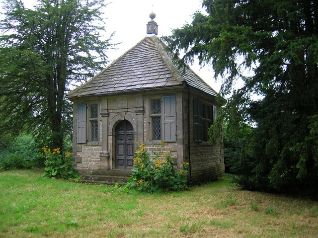 Charles Cotton's Fishing House built (1674) on the Banks of the River Dove This is a is a secular shrine to all (particularly game) anglers; Charles Cotton wrote the fly-fishing section of Isaac Walton's 'The Compleat Angler' in 1676. He lived in nearby Beresford Hall and practised his sport on the trout and grayling of the River Dove.